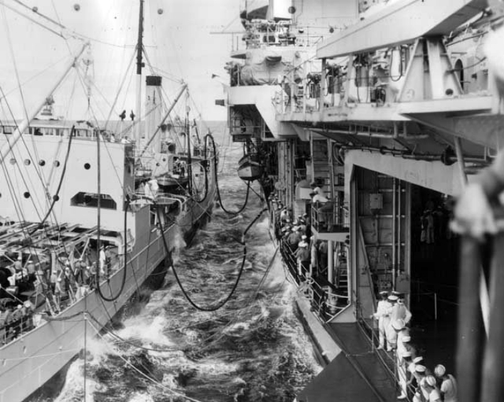 The U.S. Navy fleet oiler USS Brazos (AO-4) refueling the aircraft carrier USS Yorktown (CV-5) mid-Pacific, July 1940.